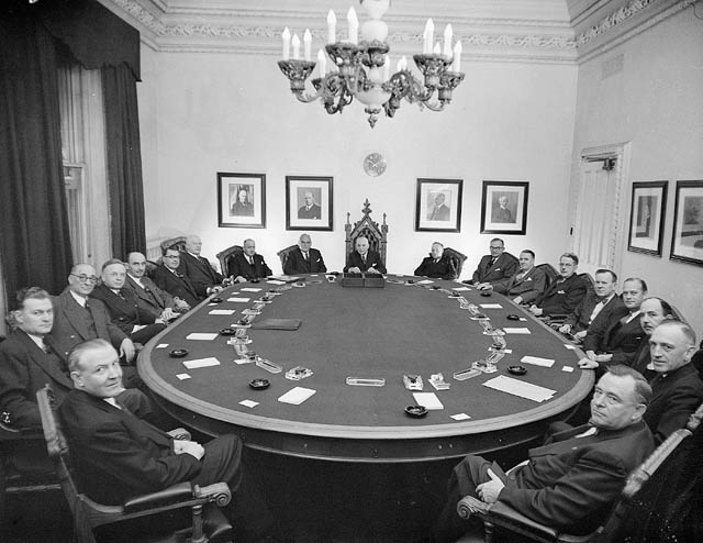 The 17th Canadian Ministry meeting in the Privy Council Chamber